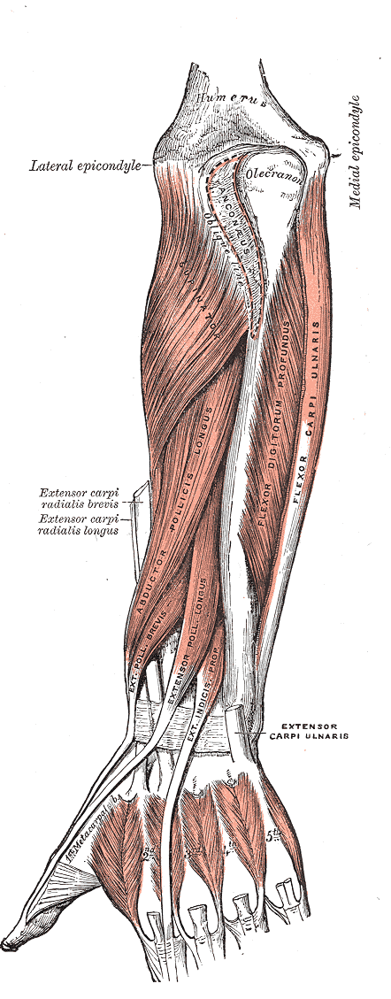 deep muscles of back of forearm